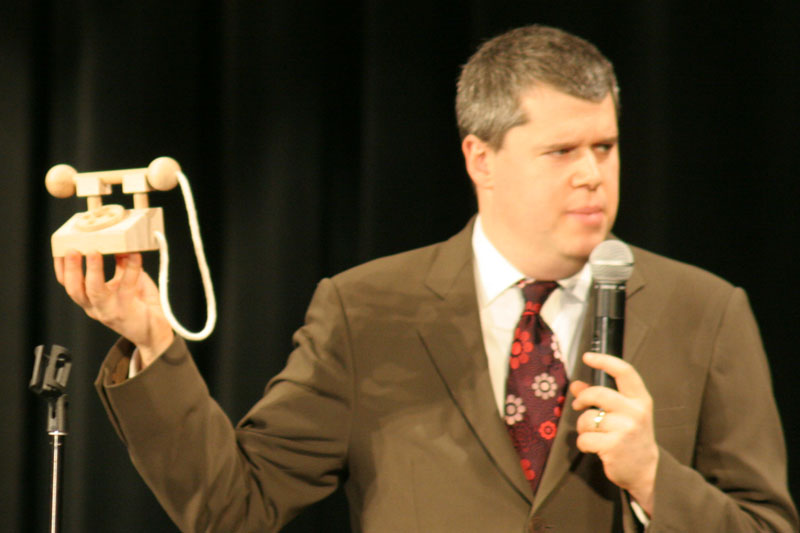 Daniel Handler prepares to "give Lemony Snicket a call on the telephone", at a reading of The End. The event, titled For Crying Out Loud, was held at Capuchino High School, San Bruno, California, USA.